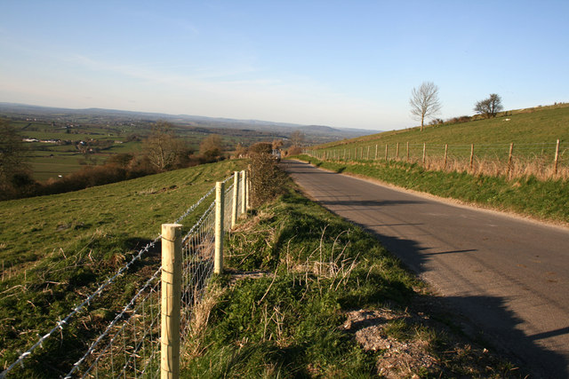 Bell Hill Bell Hill road down to Belchalwell with Duncliffe hill and the Blackmore Vale in the background